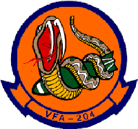 Insignia of the U.S. Navy Reserve Strike Fighter Squadron 204 (VFA-204) "River Rattlers". The insignia was approved on 8 May 1992.